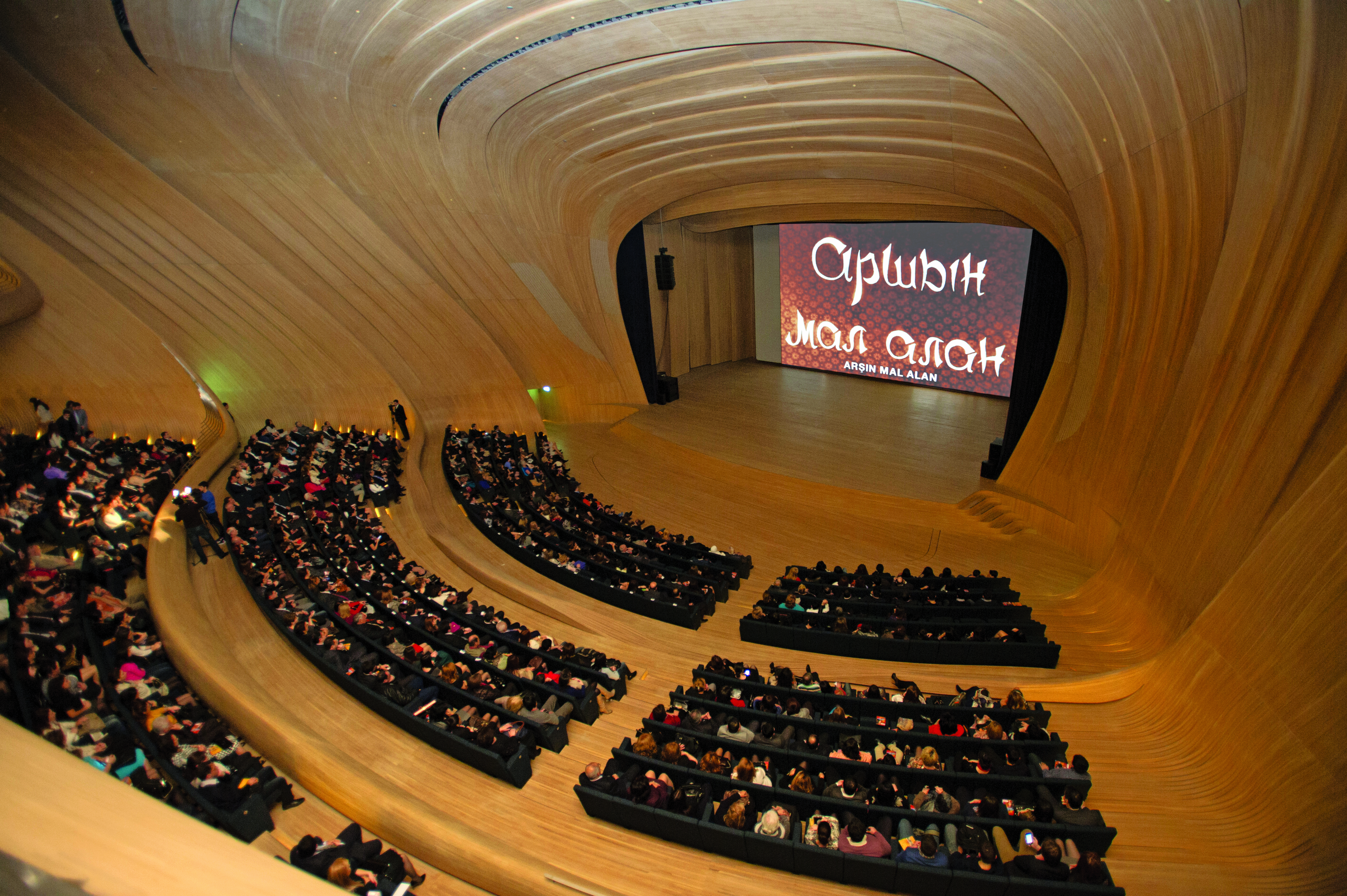 “Arşın mal alan” filminin rəngli formatda premyerası